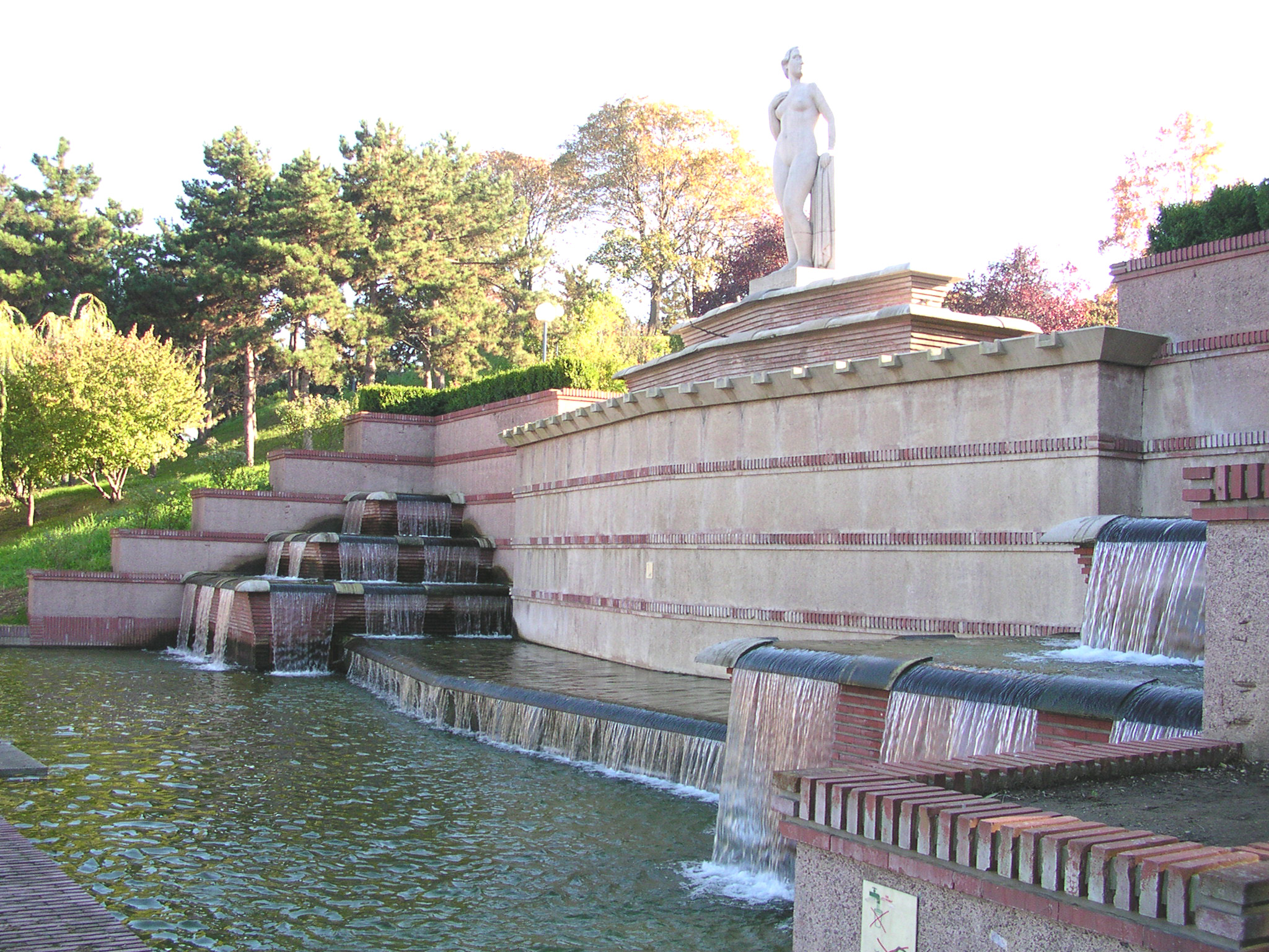 Buffet d'eau in Paris, XIXe arrondissement (France). It was built during the 1930's.